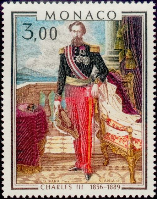 Stamp of Charles III of Monaco